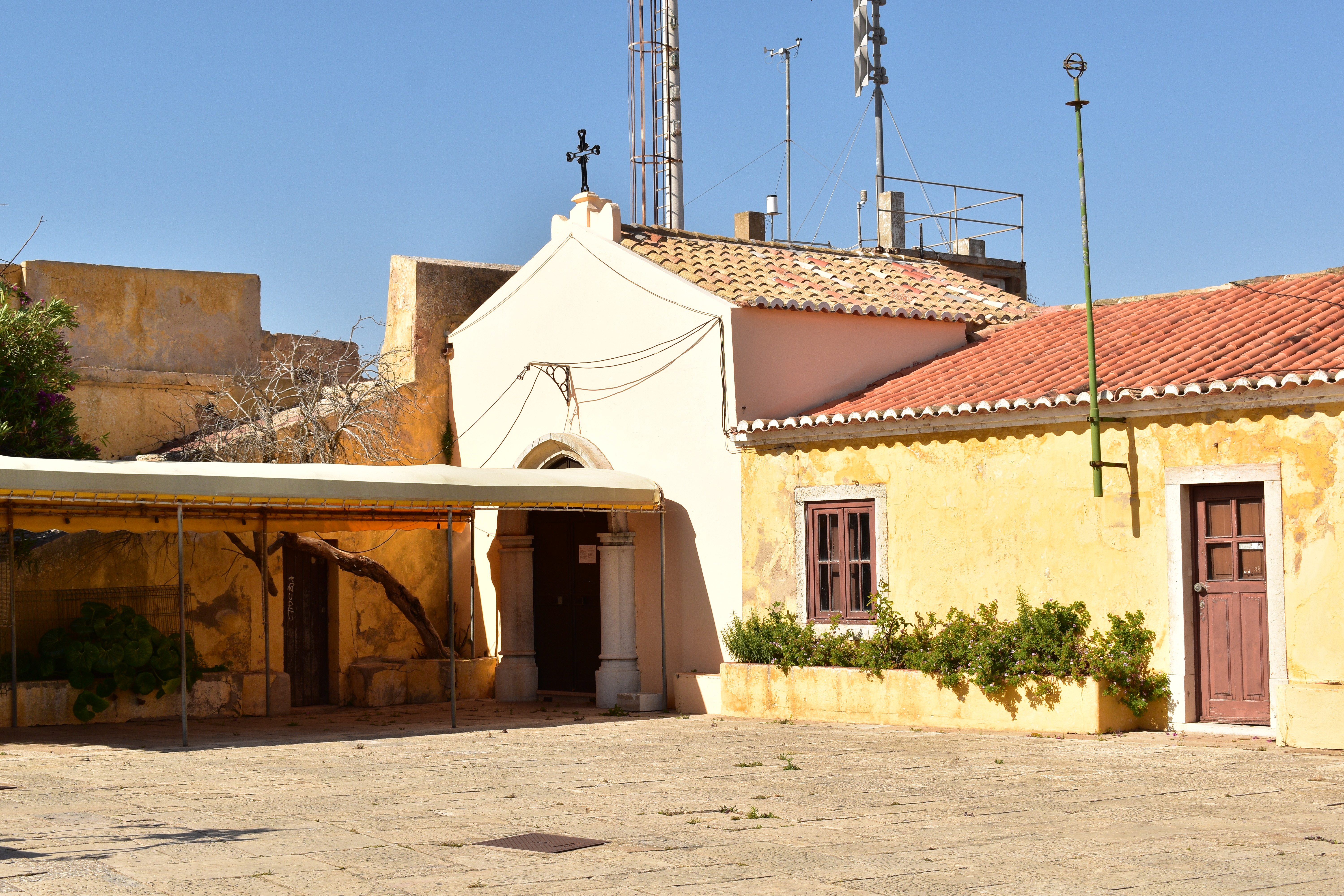 Chapel inside of Santa Catarina's Fort in Portimão, Algarve - Southern Portugal.